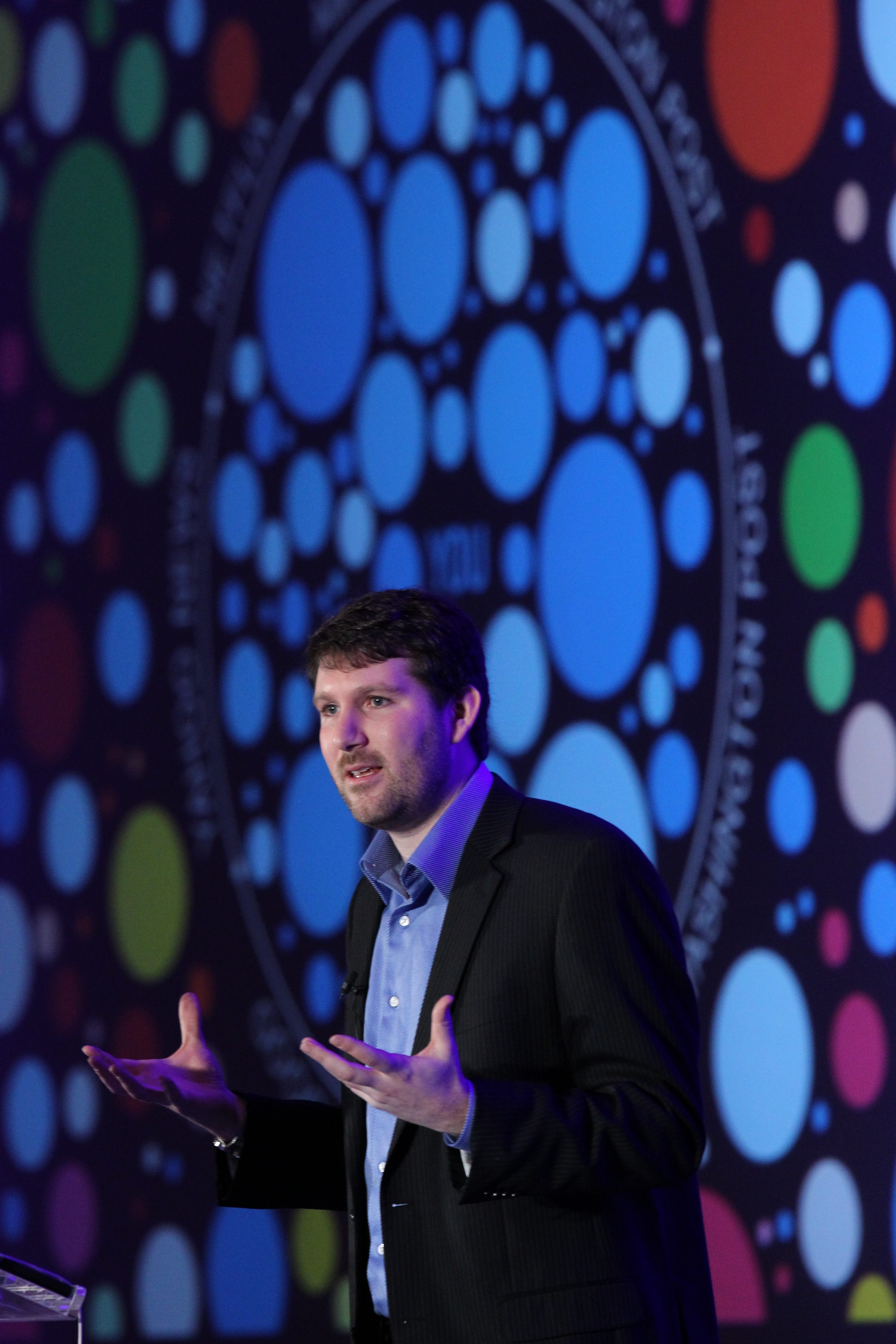 Knight Foundation's Media Learning Seminar 2012 at the Hotel InterContinental,Miami, Florida on Monday, February 20, 2012.